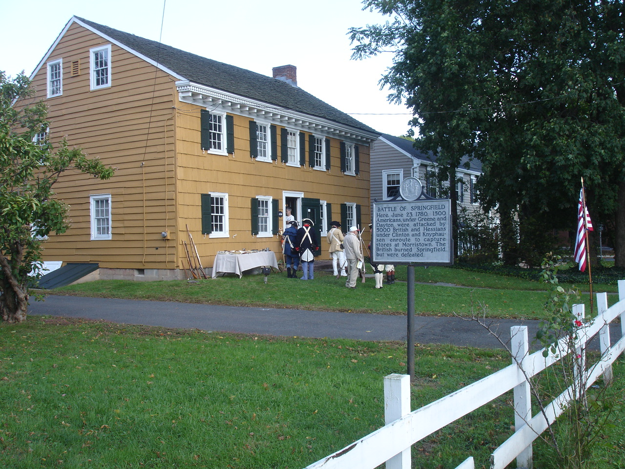 I took this photo of the Hutchings Homestead myself on October 15, 2011.